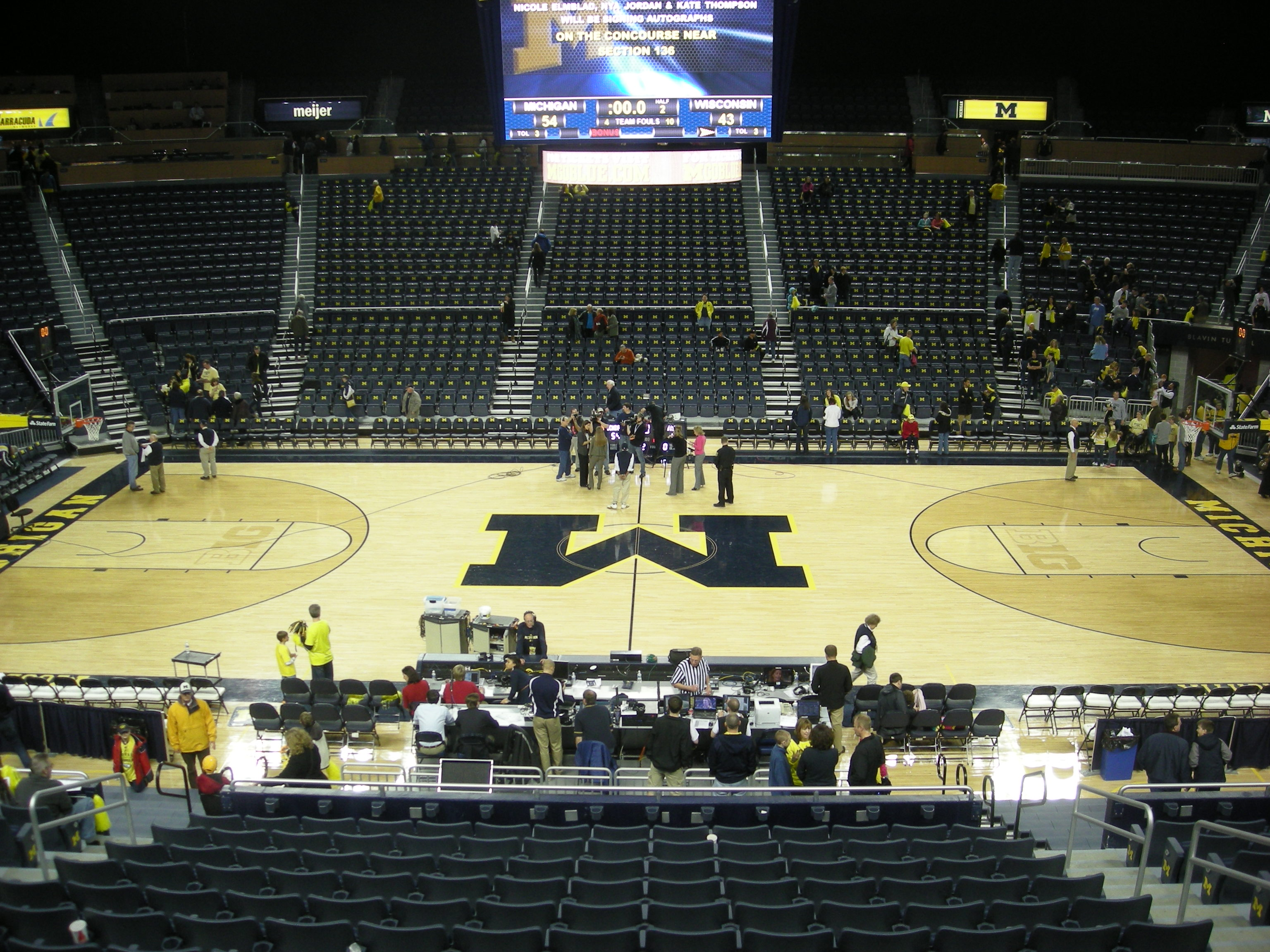 The interior of the arena after the Wisconsin Badgers vs. Michigan Wolverines women's basketball game at Crisler Center in Ann Arbor, Michigan (United States). Michigan won 54–43.